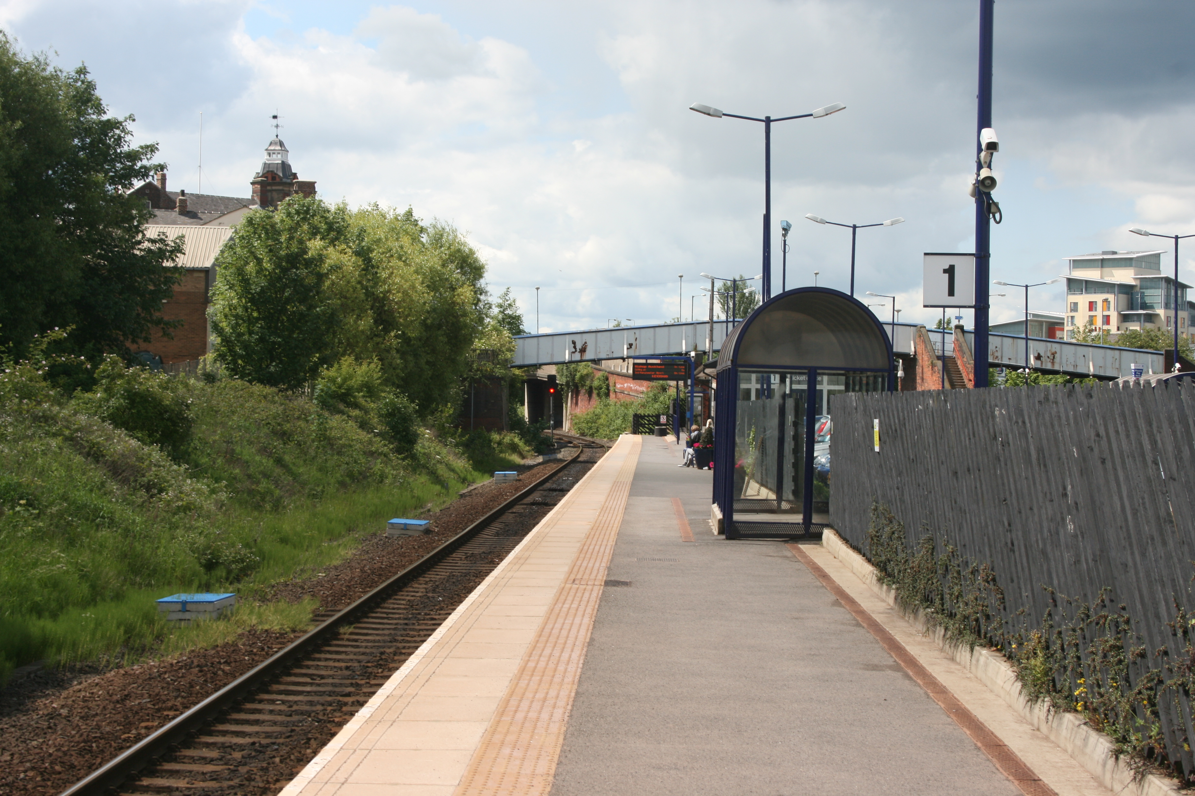 Platform 1 at Thornaby railway station looking to the west.